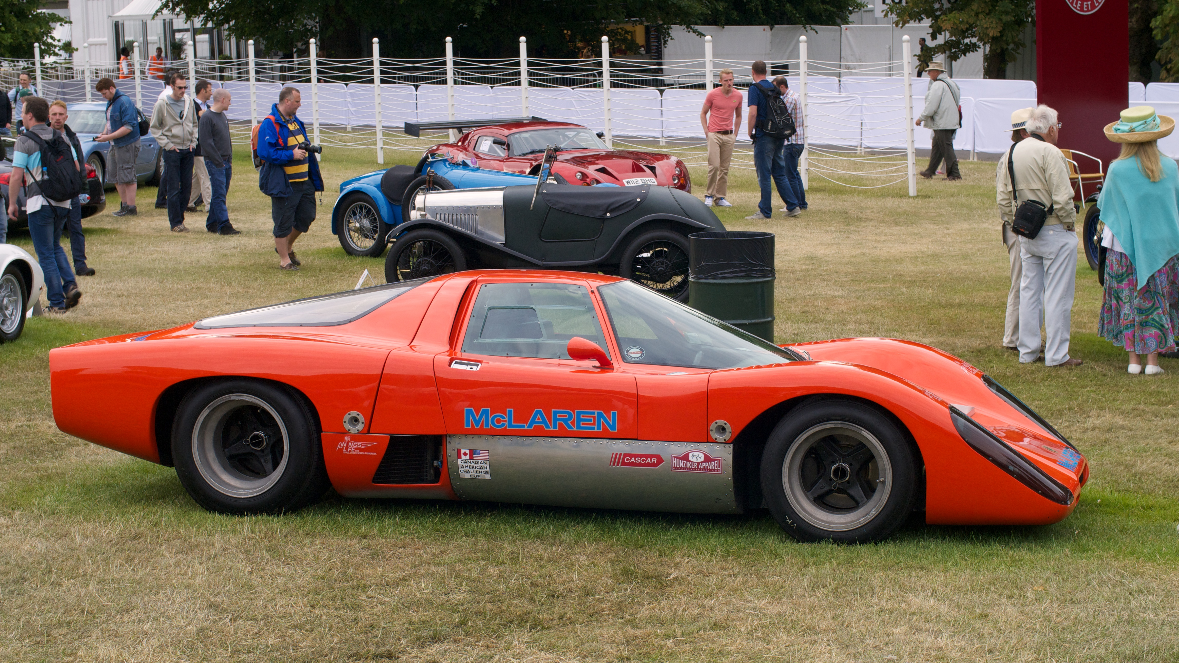 The McLaren M12 Coupé at the 2014 Goodwood Festival of Speed.